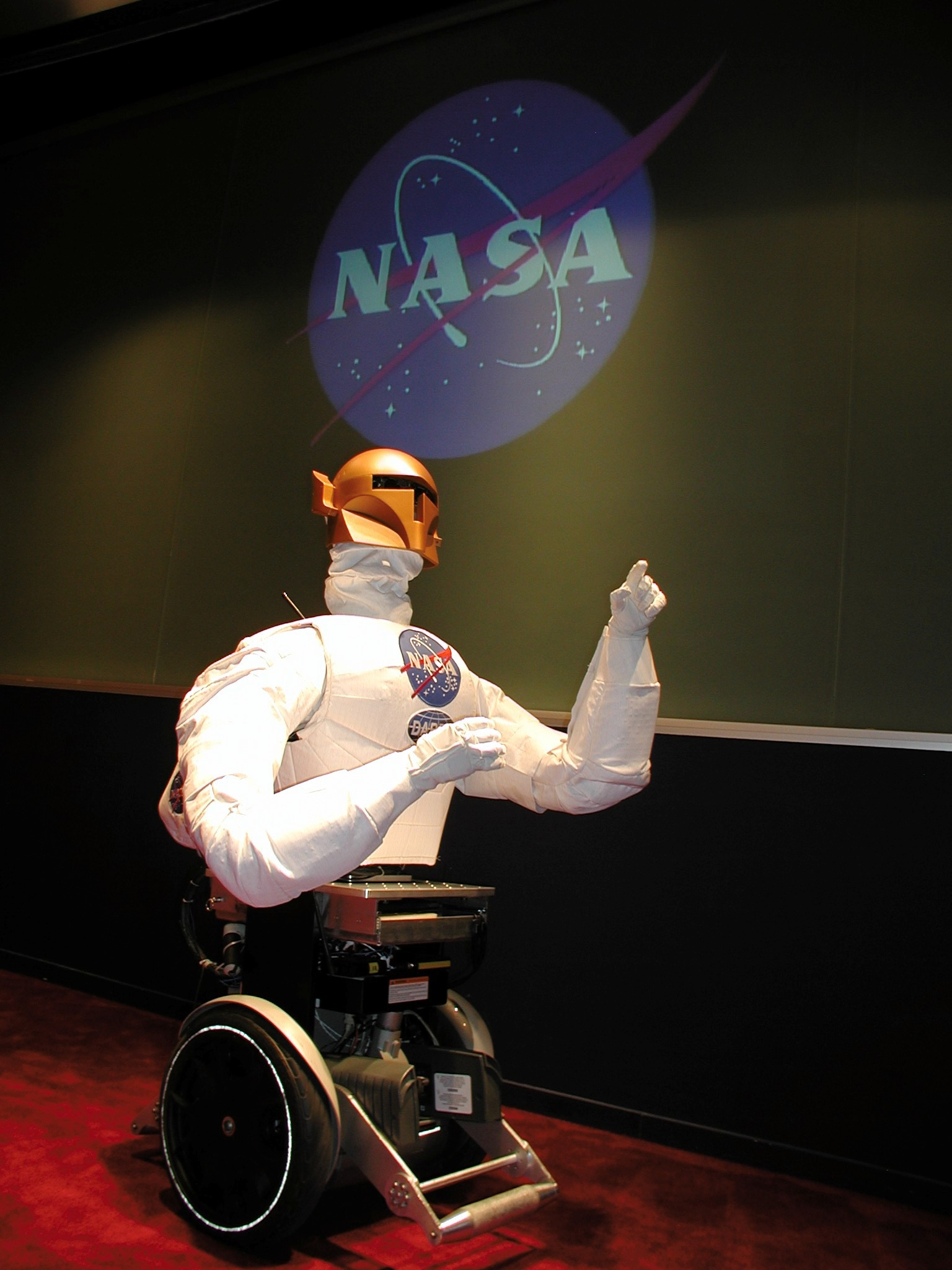 This is Robonaut B, the newer of two NASA robots used in recent hand-in-hand testing at the Johnson Space Center with human beings to evaluate their shared ability to perform certain types of extravehicular activity. In late 2003 Robonaut Unit B was retrofitted with a mobile platform. This new base, called the Robonaut Mobility Platform (RMP), adds an entirely new capability to the functionality of Unit B.